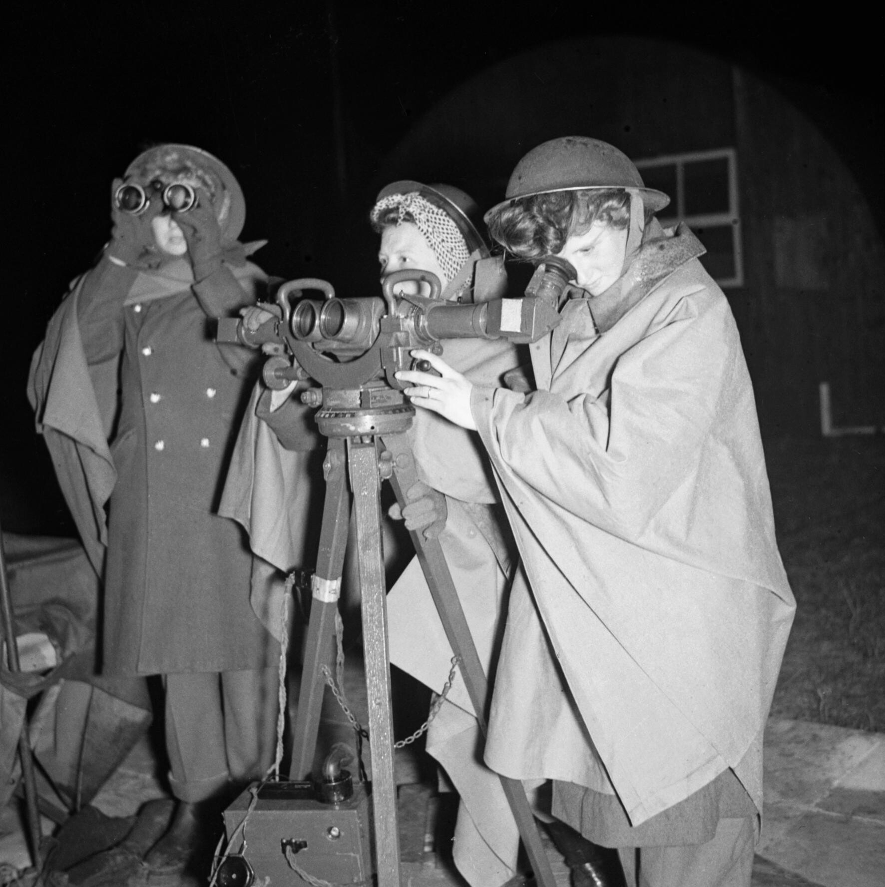 ATS girls operate a Telescope, Identification A.A. at a 3.7-inch anti-aircraft gun site firing against V-1 flying bombs, 21 July 1944. ATS girls operate a Telescope, Identification A.A. at a 3.7-inch anti-aircraft gun site firing against V1 flying bombs, 21 July 1944.